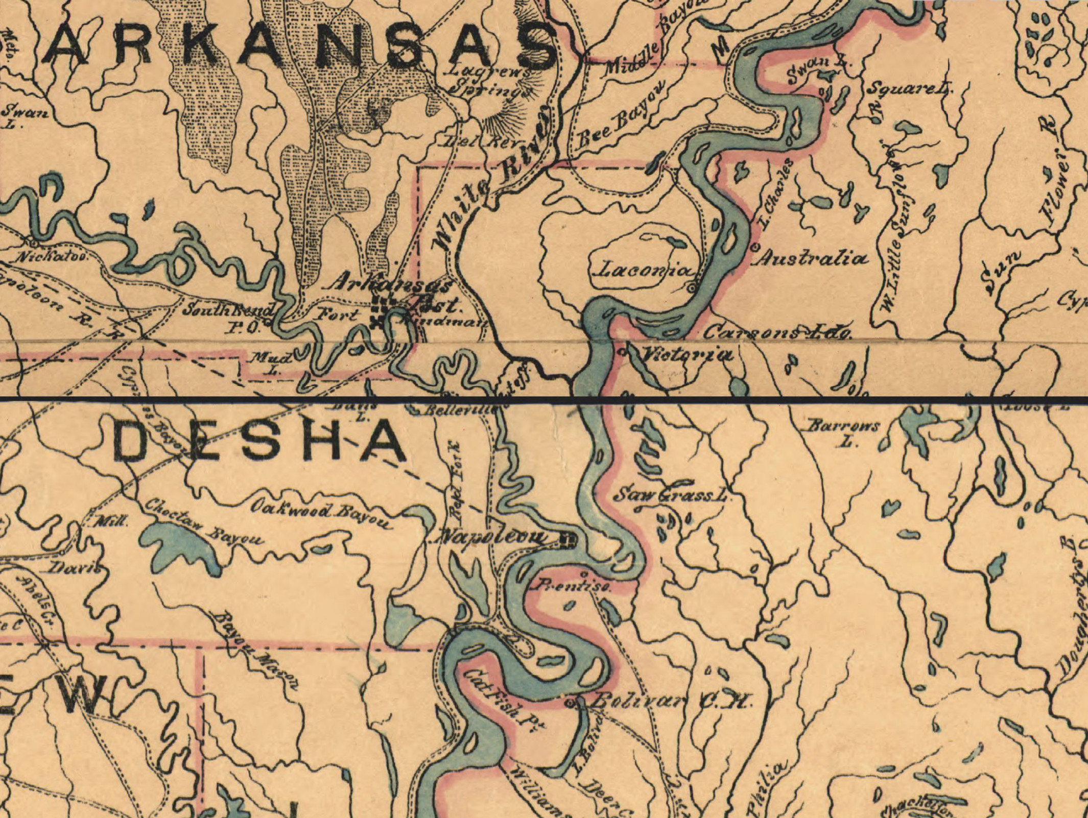 1864 Map Highlight of Southeastern Arkansas.